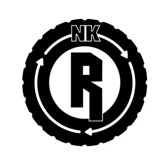 nkrmark